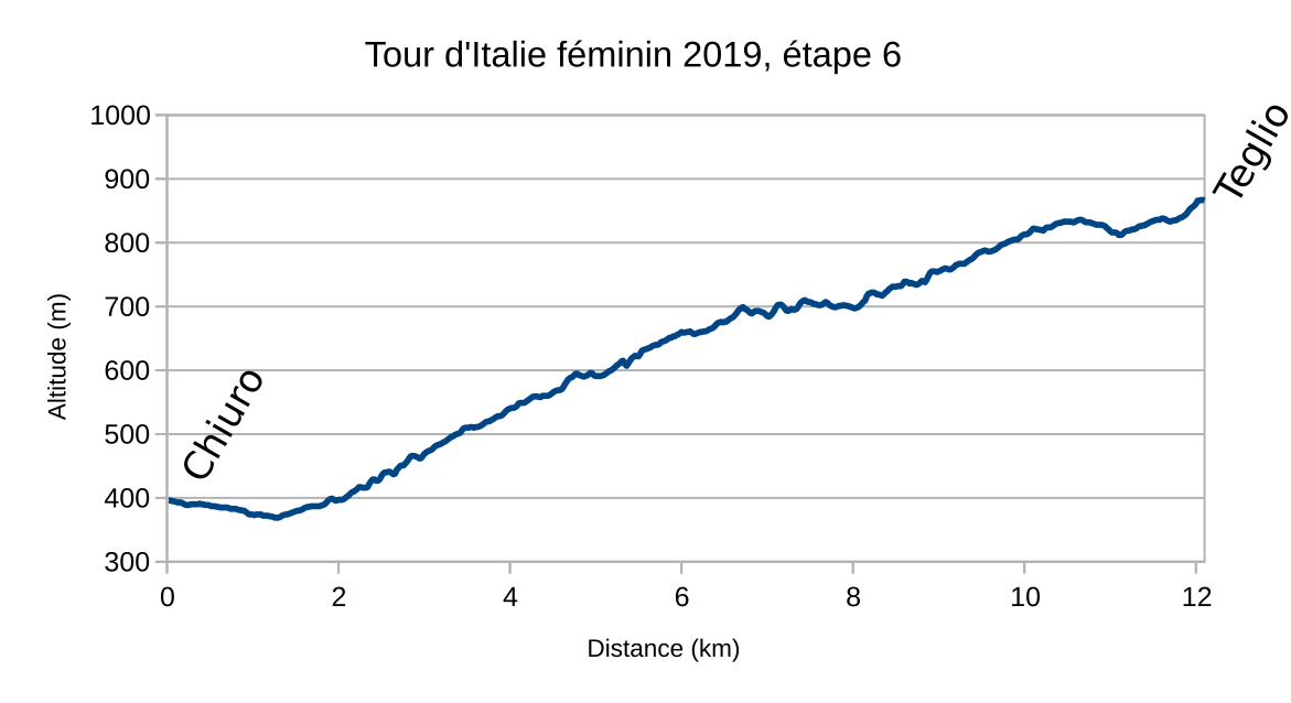 Profile of stage 6 from Giro donne 2019